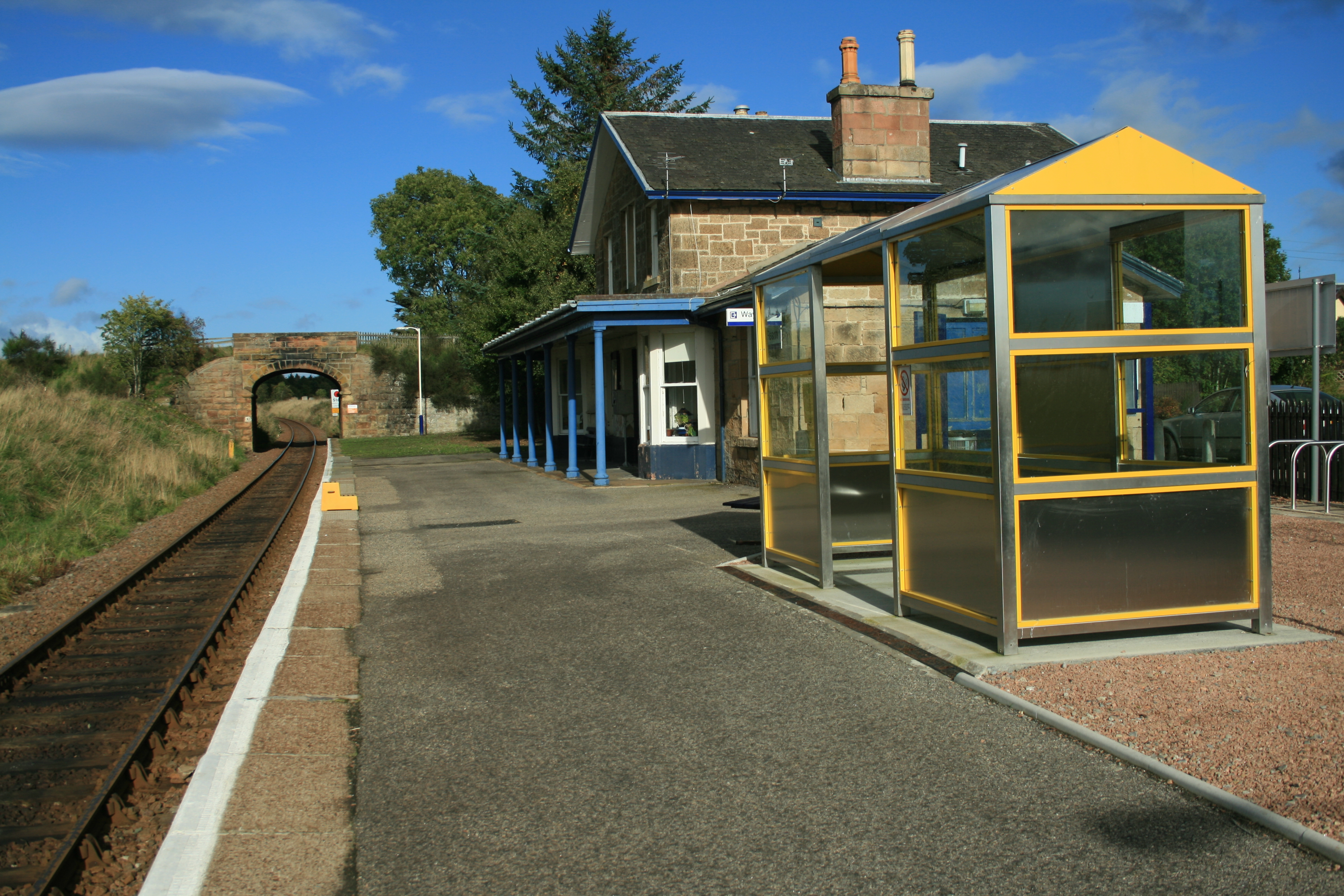 Fearn Railway Station, Ross-shire, Scotland